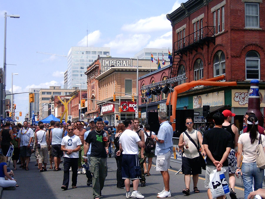 My own pictures